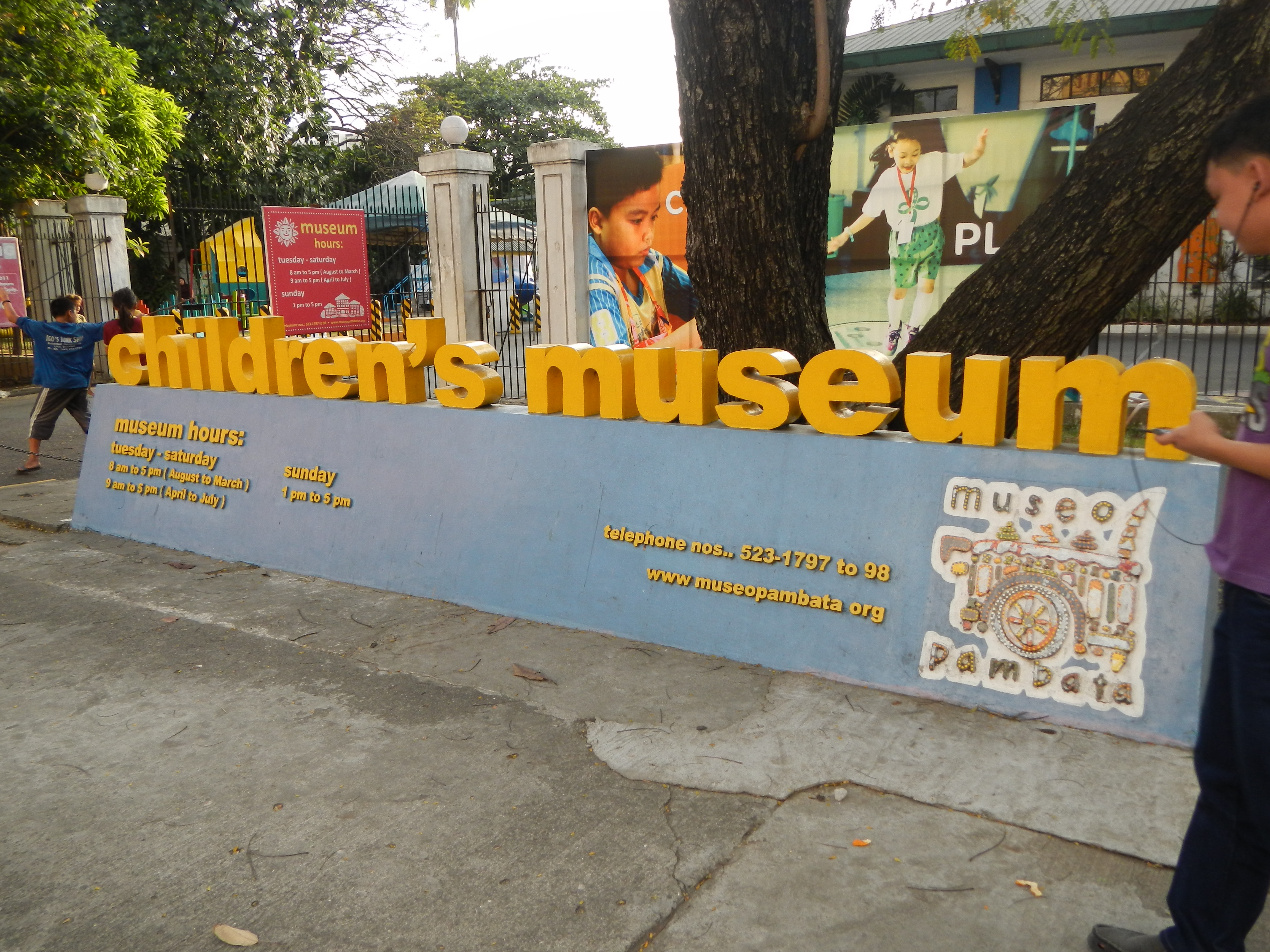 Sign at Museo Pambata children's museum, entrance — located on Roxas Boulevard in the Ermita District of Manila. The Museo Pambata is in the former Manila Elks Club Building.